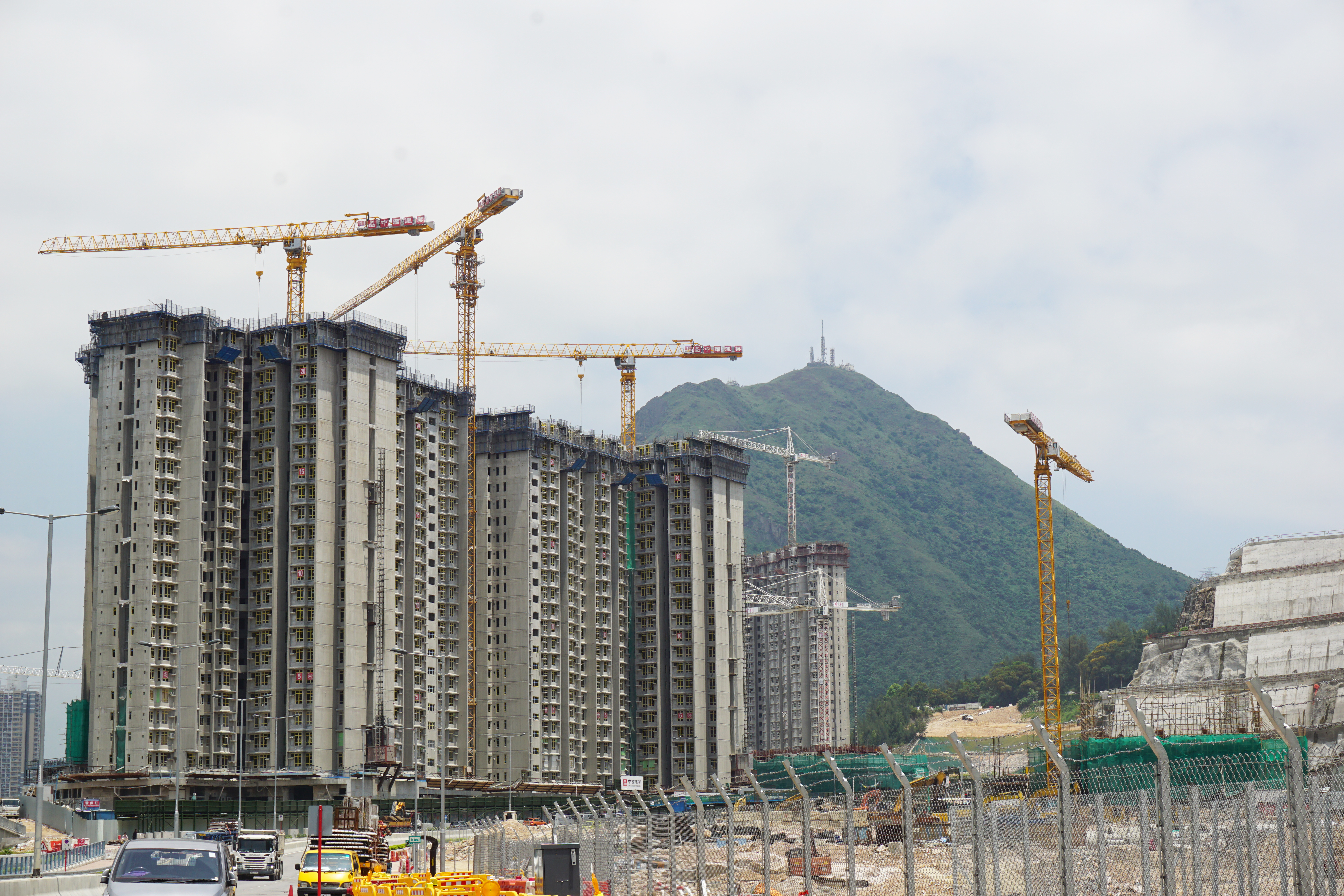 On Tai Estate in Kwun Tong, Hong Kong.